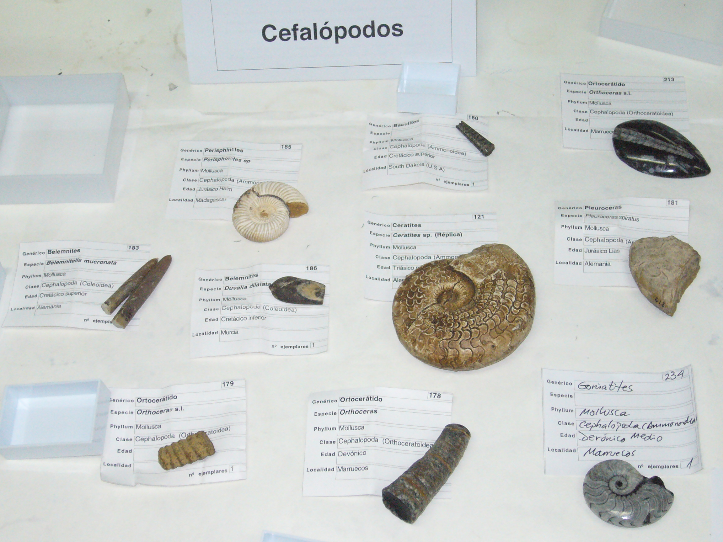 General vision of Cephalopoda Fossils in a laboratory of practices of the Faculty of Sciences of the University of Corunna.